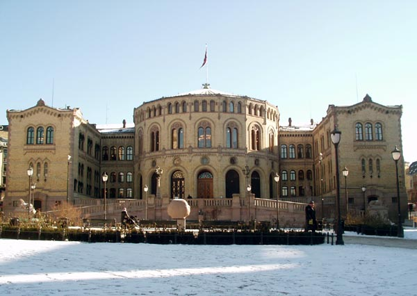 A picture of the Norwegian Parliament buildings.